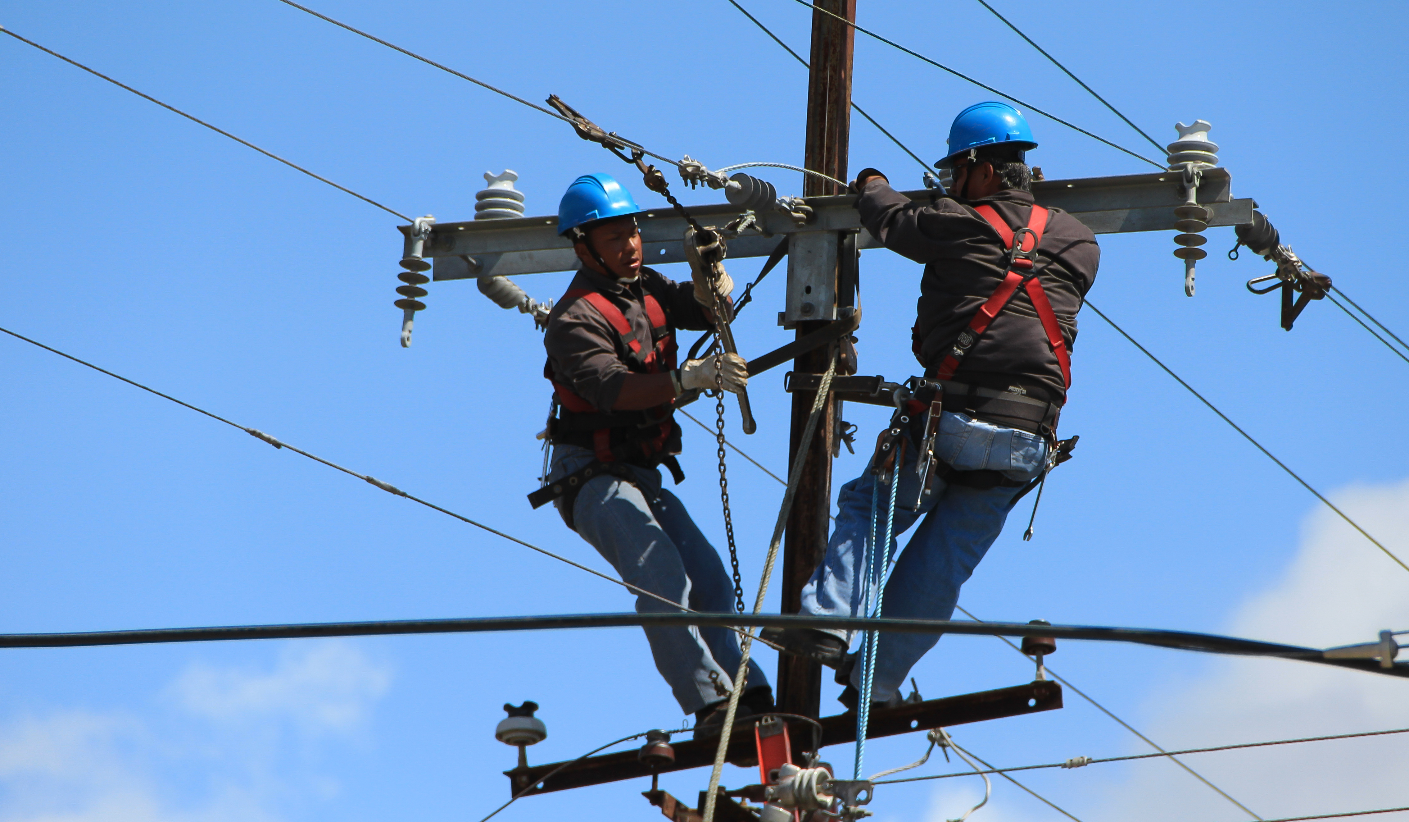 Linemen working together to repair line damage and restore electrical power in Panama